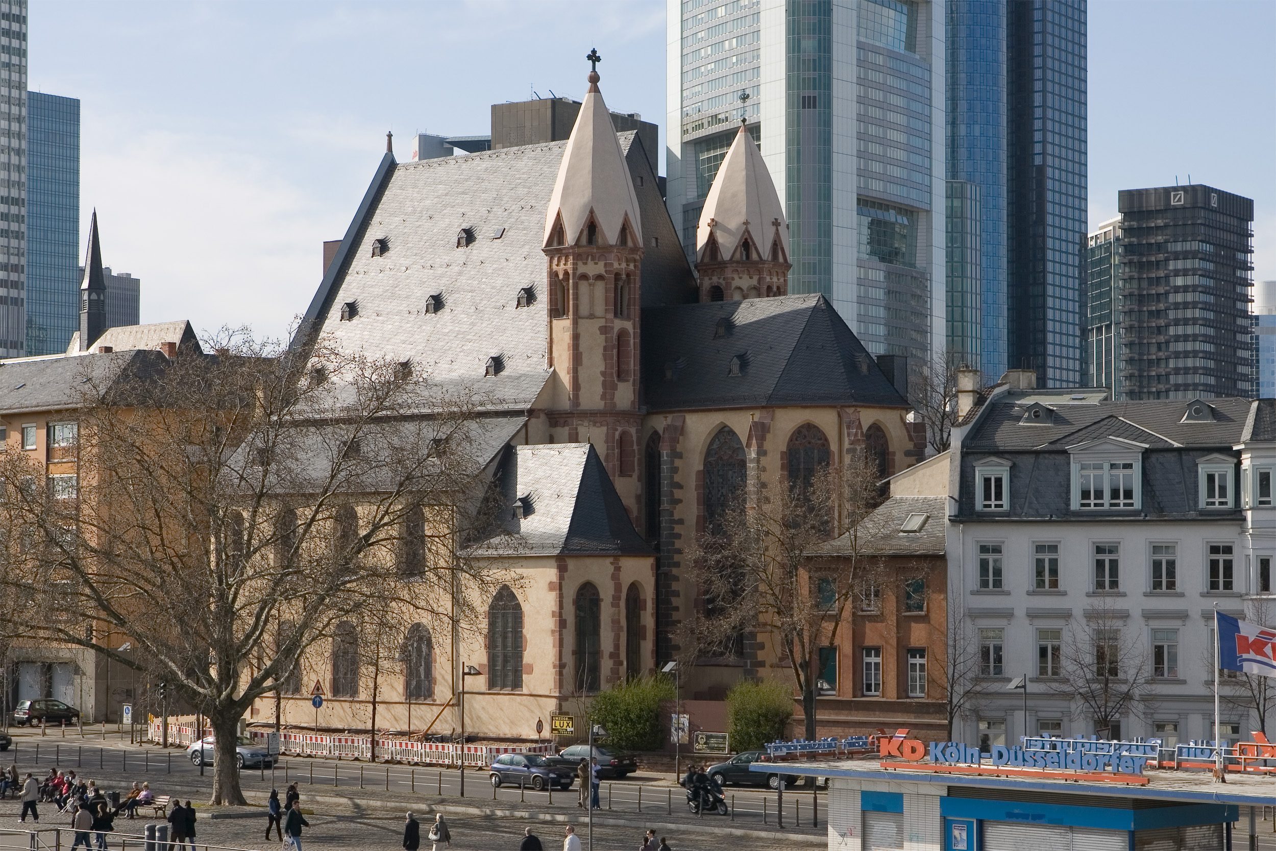 Frankfurt on the Main: Leonhardskirche (Leonard's church) as seen from the Eiserner Steg (Iron Bridge)